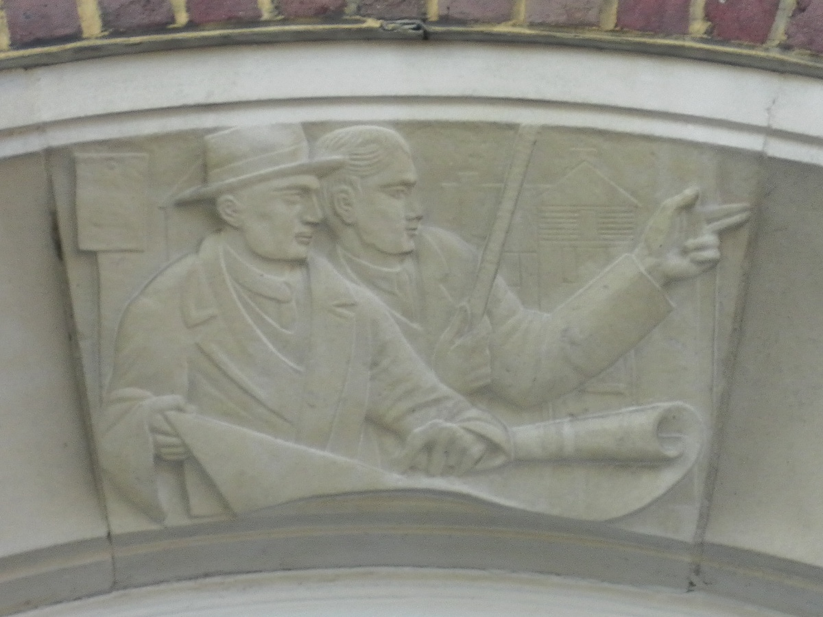 One of a series of nine carved reliefs by Joseph Cribb in the architraves of the ground-floor windows at 20–22 Marlborough Place, Brighton, City of Brighton and Hove, England. The building, designed in 1933 by John Leopold Denman, is now the Allied Irish Bank. This relief depicts Denman himself (on the left, wearing a hat and holding an architectural plan) and another unidentified architect.